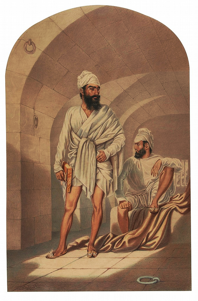 Diwan Mulraj with a companion in cell